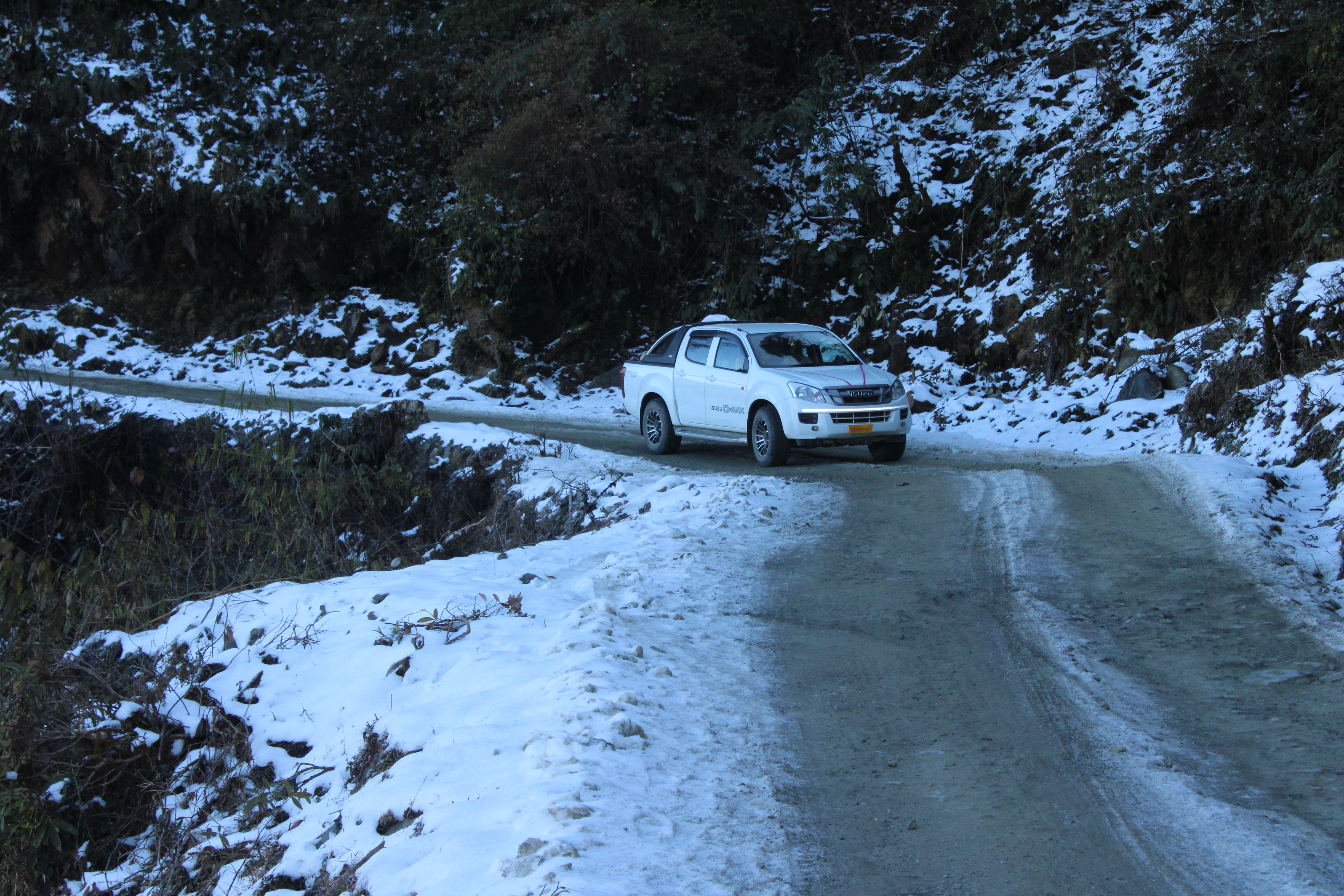 mayodia 8